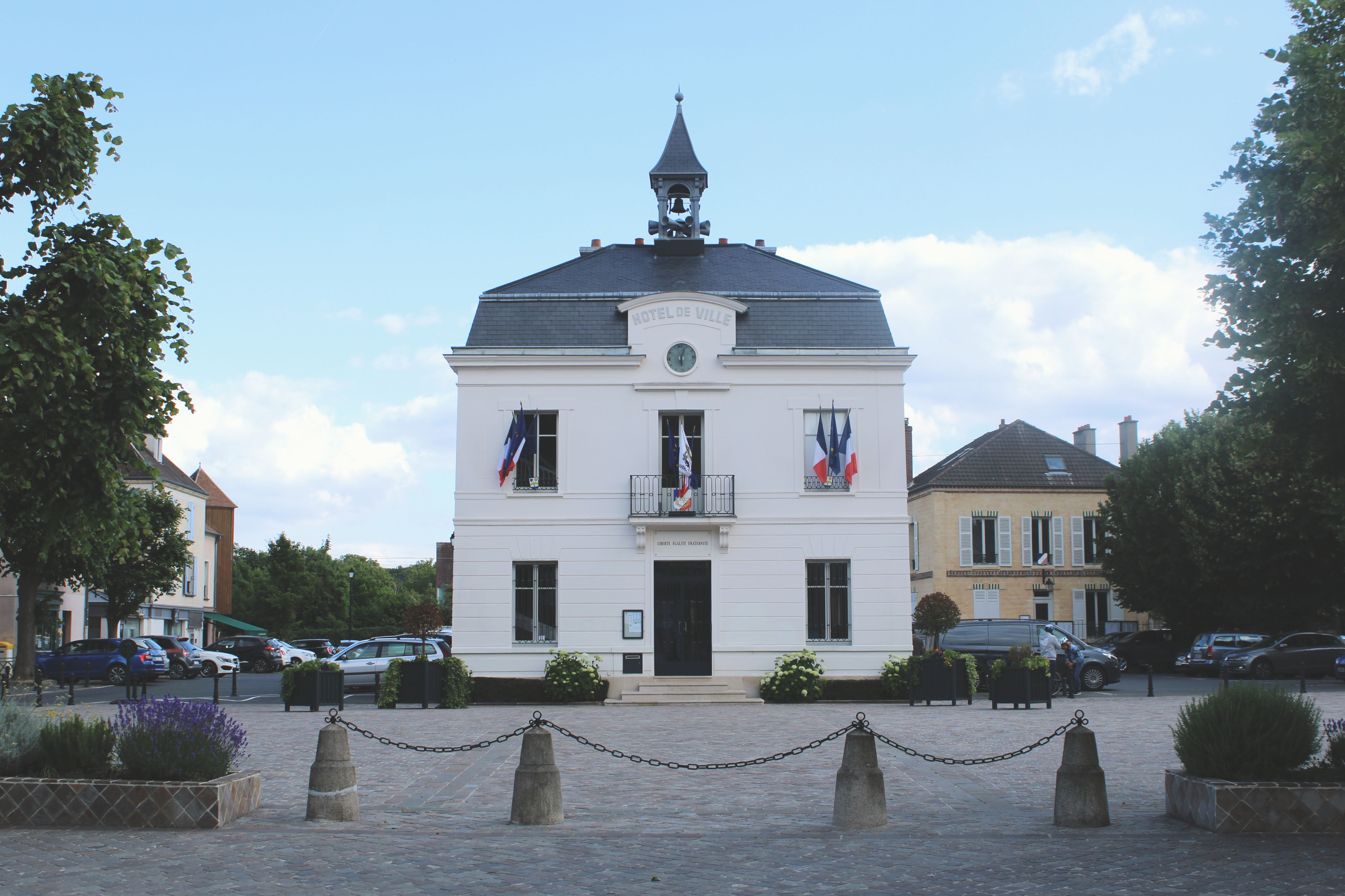 Town hall of Auvers-sur-Oise. It is located on the street rue du Général de Gaulle. The place and the building were renovated in 2016.